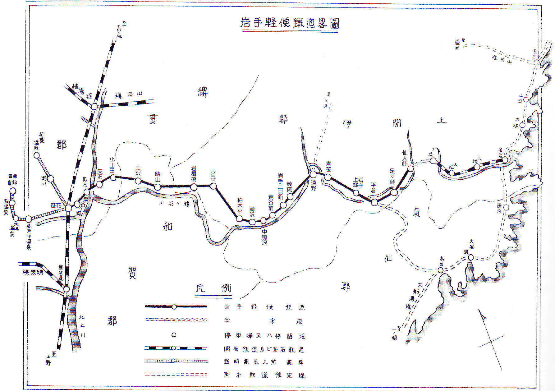 A route map of Iwate Keiben Tetsudo (Iwate Light Railway) in 1925. Iwate Keiben Tetsudo was nationalized in 1936 and became JR Kamaishi line later.